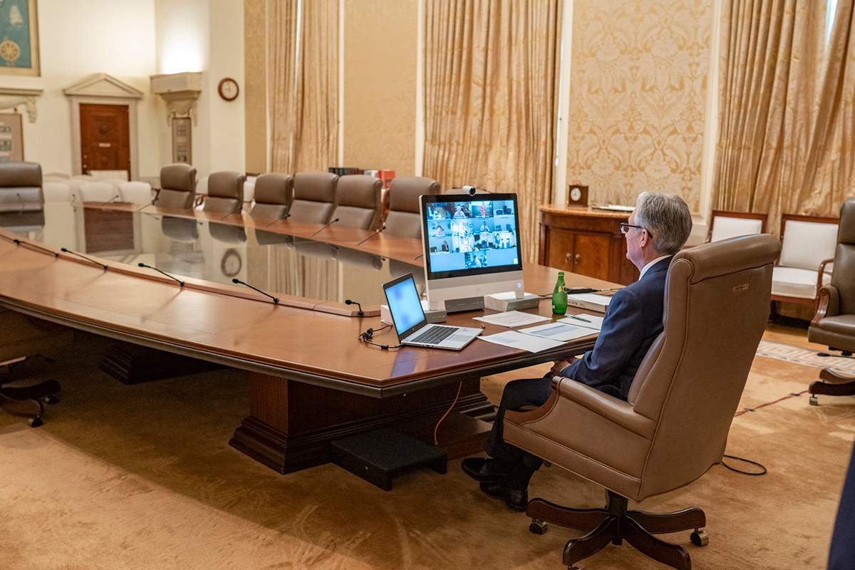 Federal Open Market Committee (FOMC) participants meet via video conference for a two-day meeting held on June 9-10, 2020. Please note: Confidential items seen in this photo have been obscured.